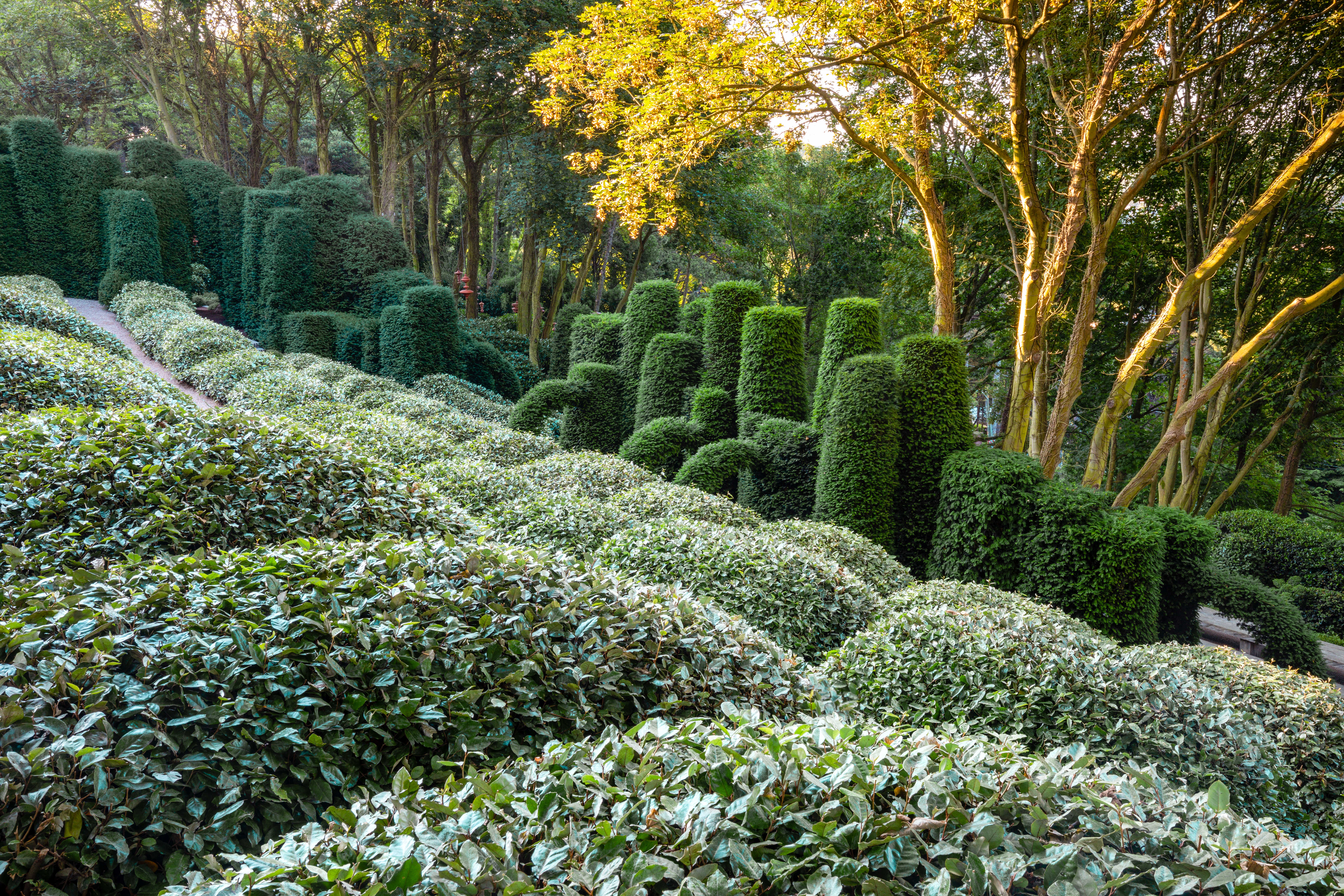 France, Etretat, Etretat Gardens, Le Jardin La Manche